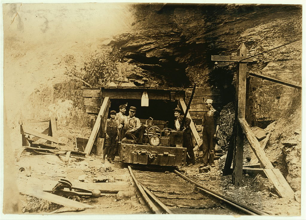 Entrance to a "drift" coal mine in West Virginia. Note the unprotected electrical wire and the child worker.